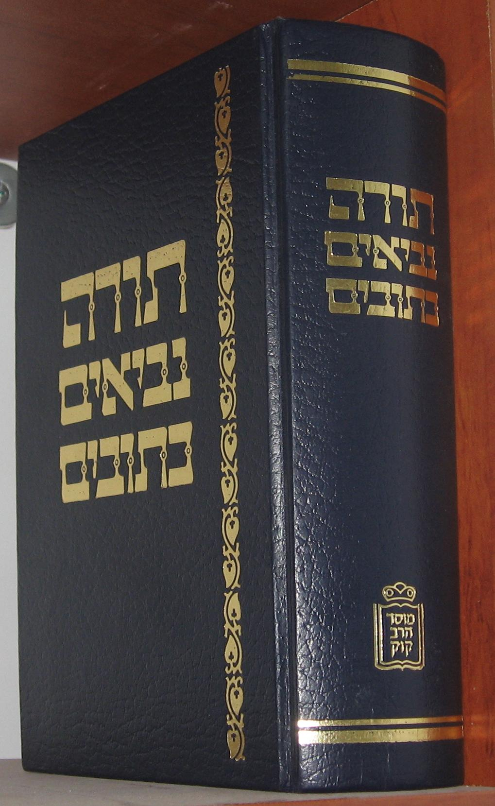 A photograph of a Tanakh published by Mosad HaRav Kook